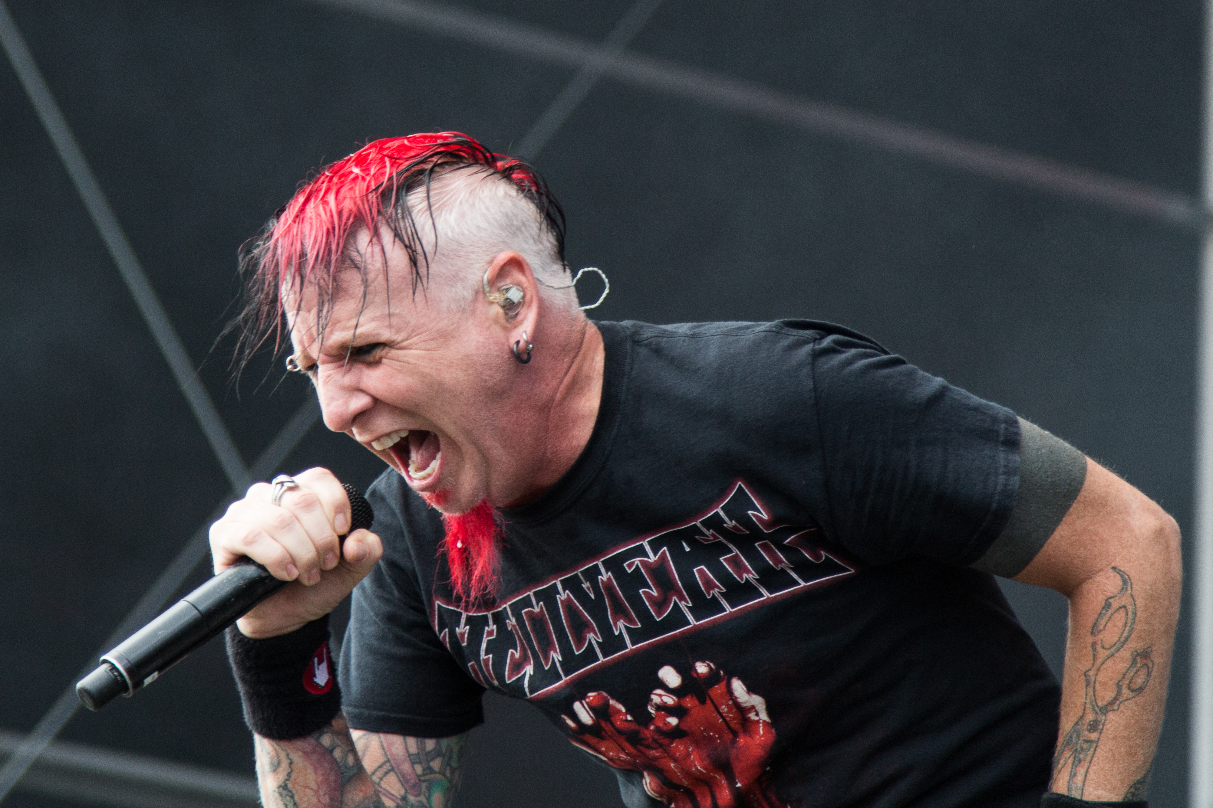 Chad Grey from Hellyeah at the See-Rock Festival 2014